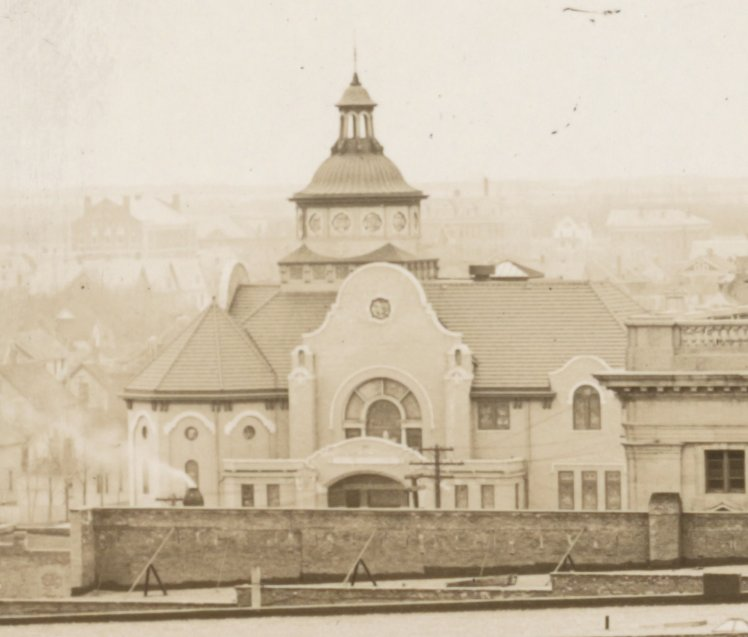 NRHP-listed First United Methodist Church in Aberdeen, South Dakota.